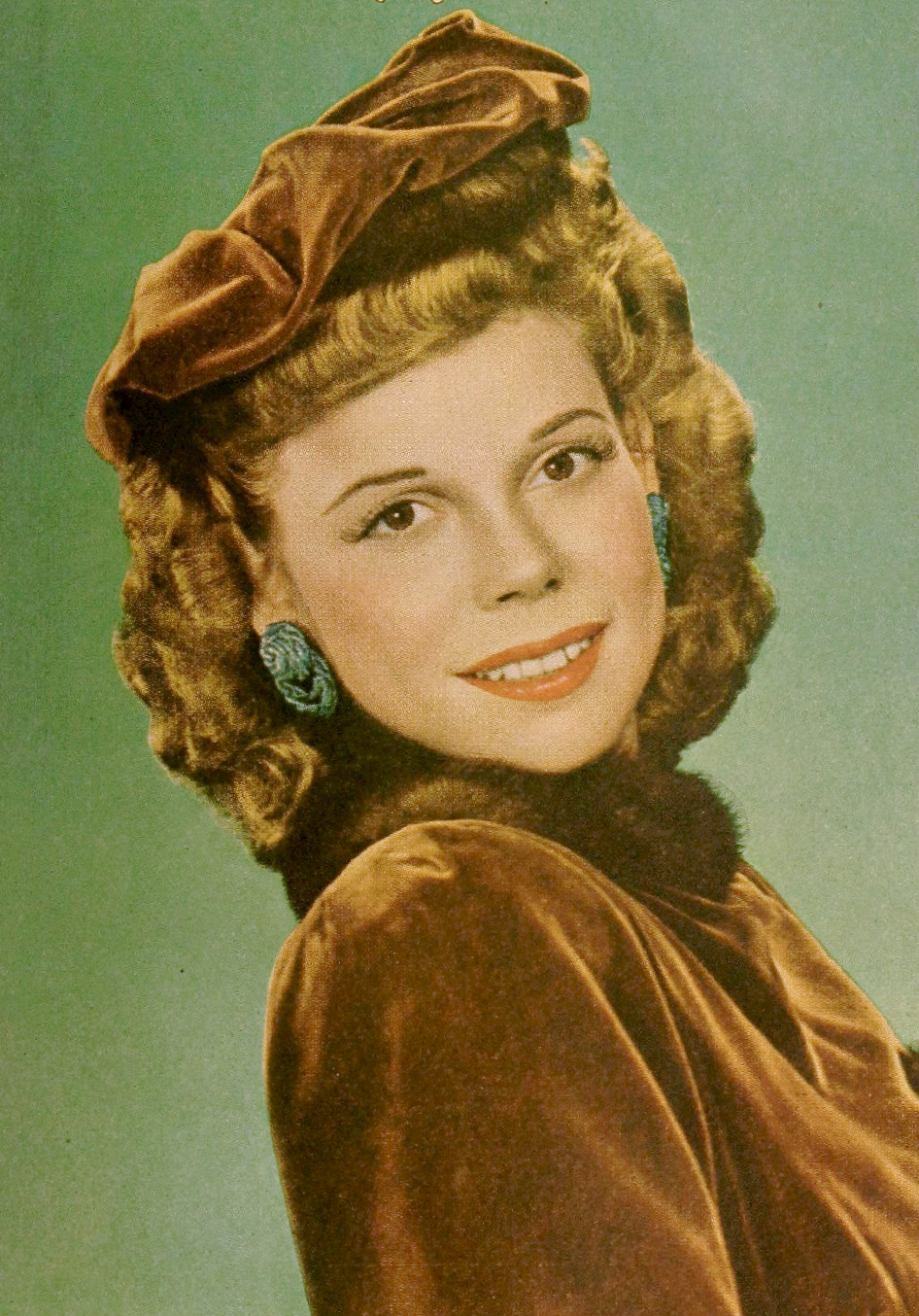 Photo of Joan Edwards from the cover of the November 1945 issue of Radio Romances. A search for renewal was done in periodicals for the years 1972 and 1973. While Macfadden renewed two issues of the magazine published in 1945, they were the April and May issues-not the November 1945 issue where this photo was on the cover. There's no evidence that Macfadden renewed any 1945 issues of the magazine except the April and May issues mentioned.